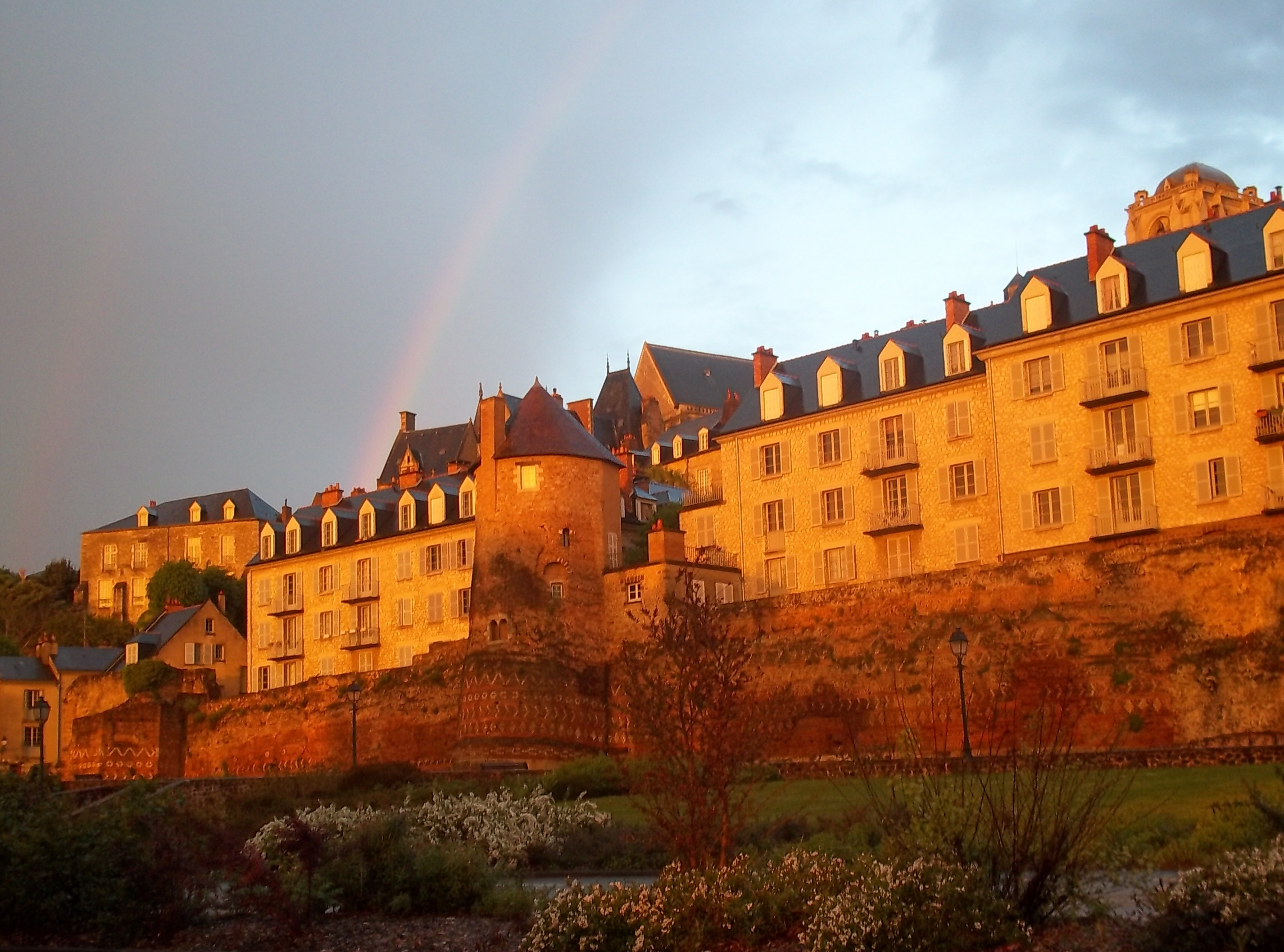 Ancient Roman defensive walls of Le Mans-France